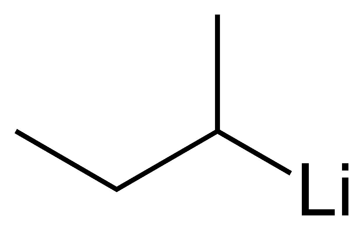 Skeletal formula of monomeric sec-Butyllithium. s-BuLi normally adopts a tetrameric structure as a solid, in solution, and in the gas phase, as shown in File:Sec-butyllithium-2D-skeletal.png. This monomeric depiction is not representative of the usual state of aggregation of s-BuLi, but is helpful in illustrating the difference between monomeric and oligomeric organolithium structures, and is often used to represent s-BuLi when drawing reaction mechanisms. Structure drawn in ChemBioDraw Ultra 12.0.